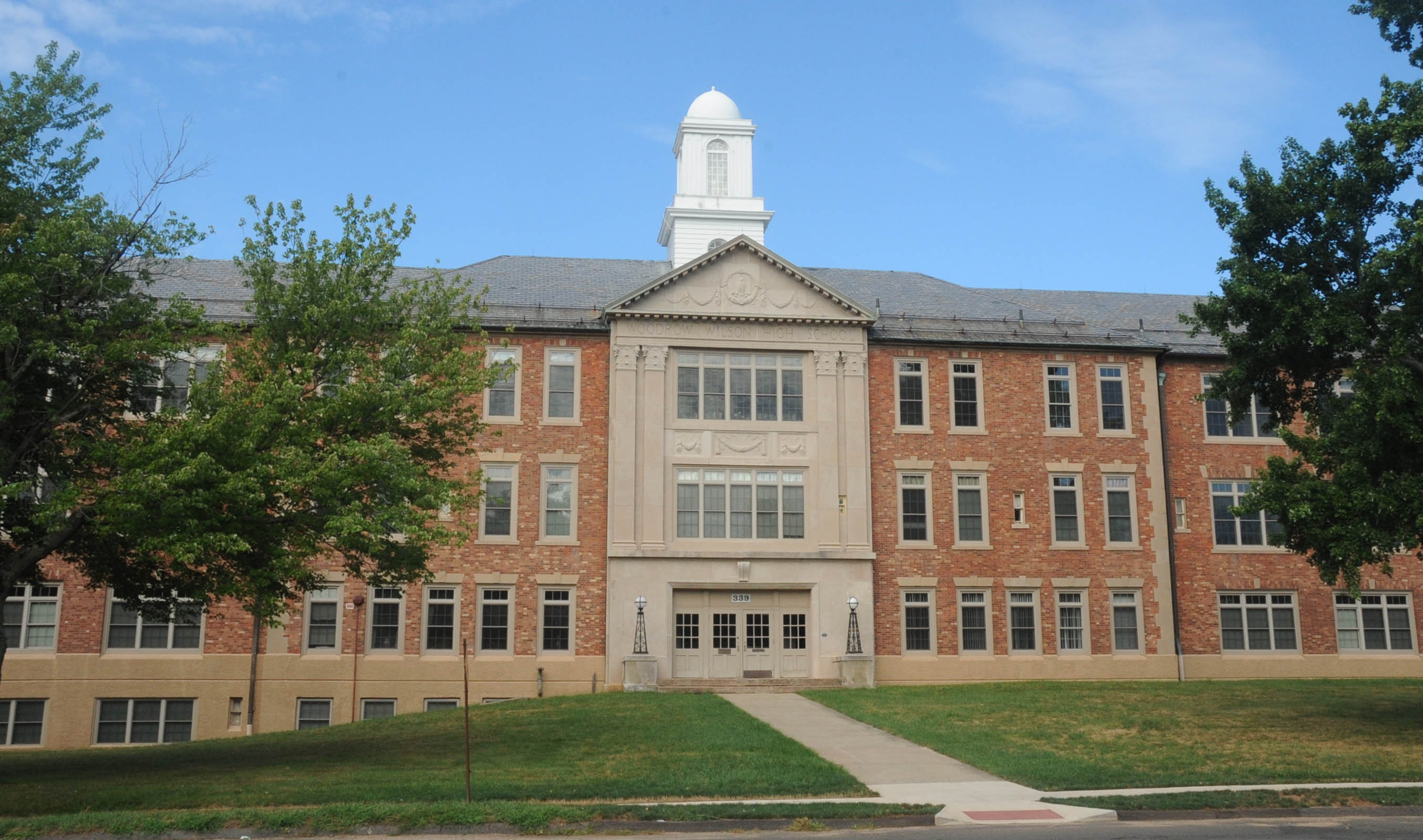 The former Woodrow Wilson High School, Middletown, Connecticut, U.S. Built in 1931 in Renaissance Revival style. Now used for residential purposes.